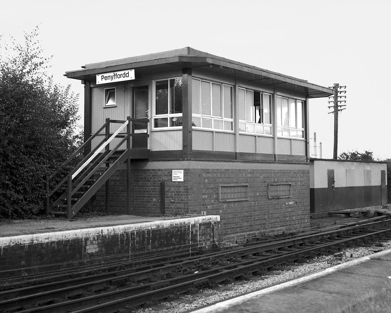 Penyffordd signal box located by the Down Main line at the north end of Penyffordd station. Monday 7th September 1987 Penyffordd signal box is a British Railways London Midland Region Type 15 design which opened fitted with a 25 lever London Midland Region Standard frame on 17th December 1972, replacing an earlier signal located just to the north. It was built using parts moved from Madeley Chord signal box which closed on 22nd August 1971 The signal box carries a pair of British Rail corporate identity printed design nameplates